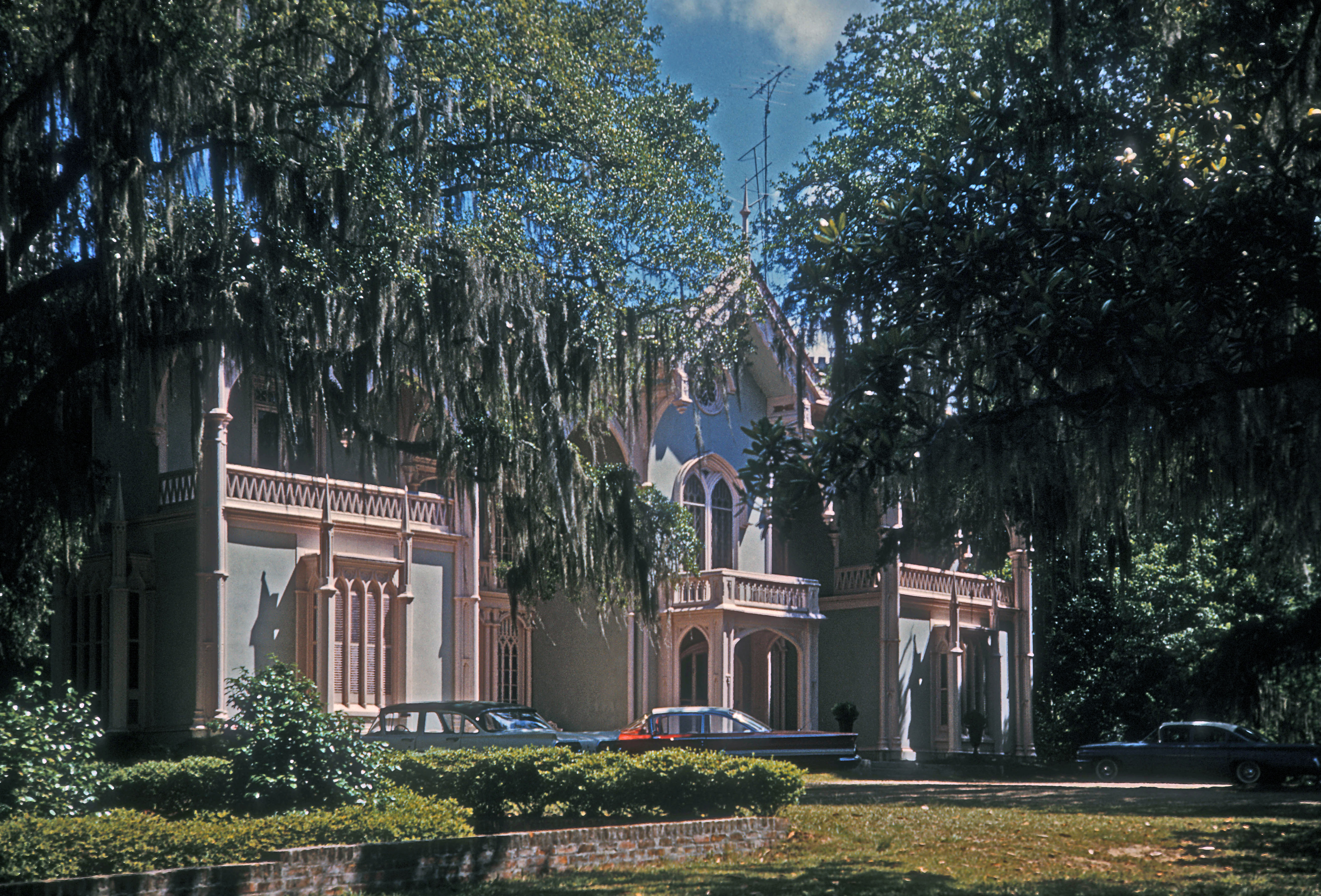 BUILT BY THE BARROW FAMILY IN 1790 AND REBUILT IN 1849, ONE OF THE BARROW FAMILY WAS A NOTED SINGER, AND FAMOUS FOR HER RENDITION OF "FLOW GENTLY SWEET AFTON"